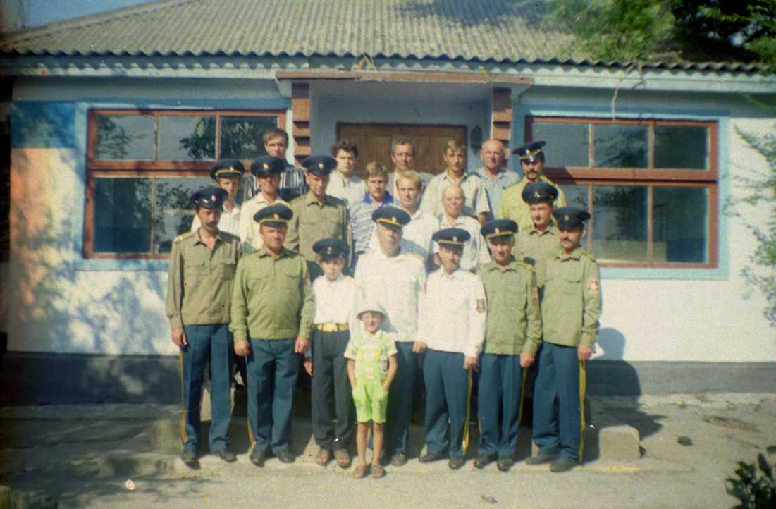 Особистий склад Адамівського Осередку Козацтва